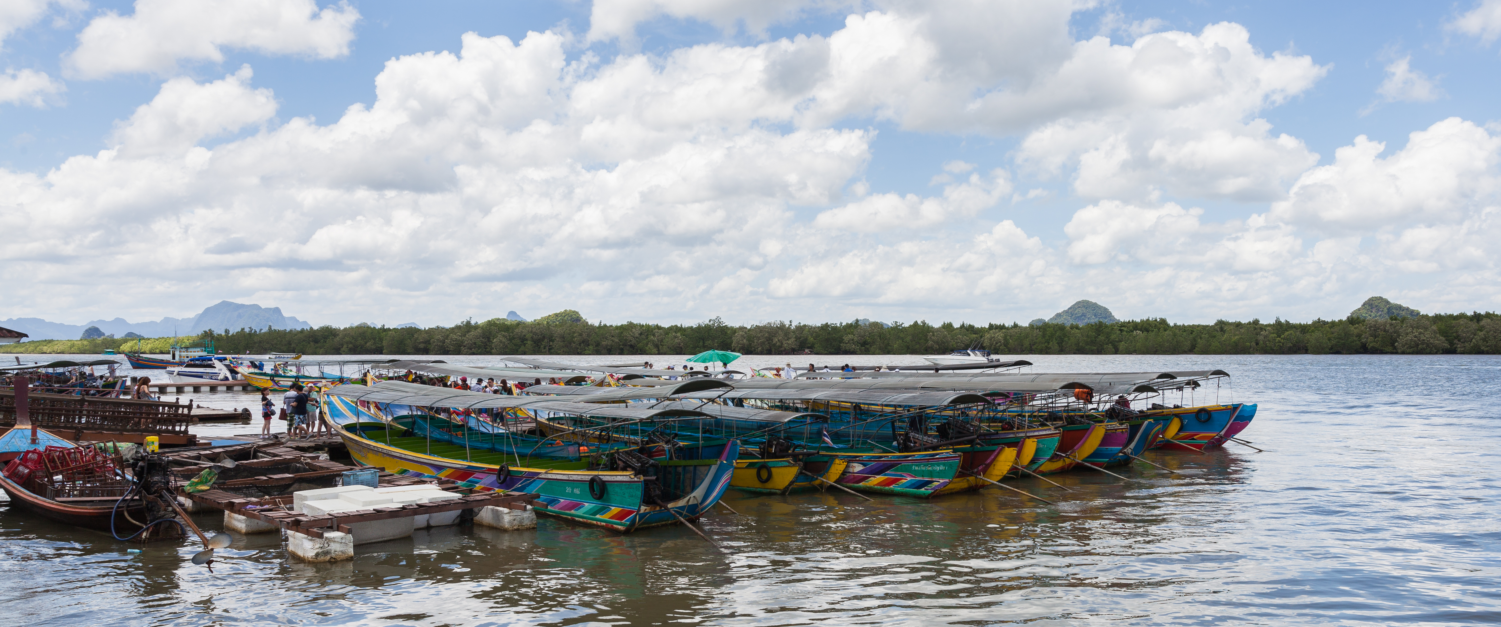 Panyee Island, Phuket, Thailand